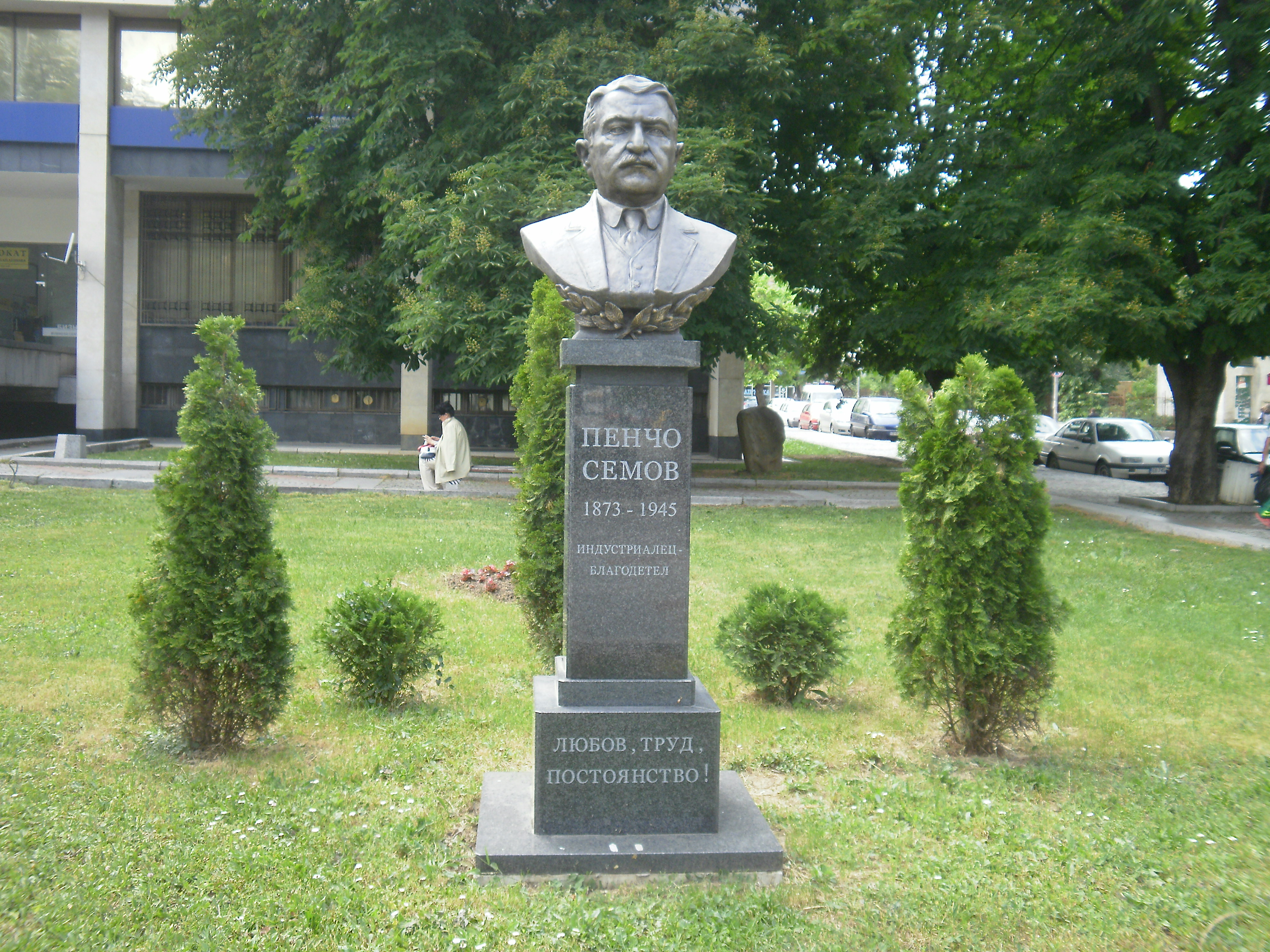 Pencho Semov Monument, Gabrovo, Bulgaria.